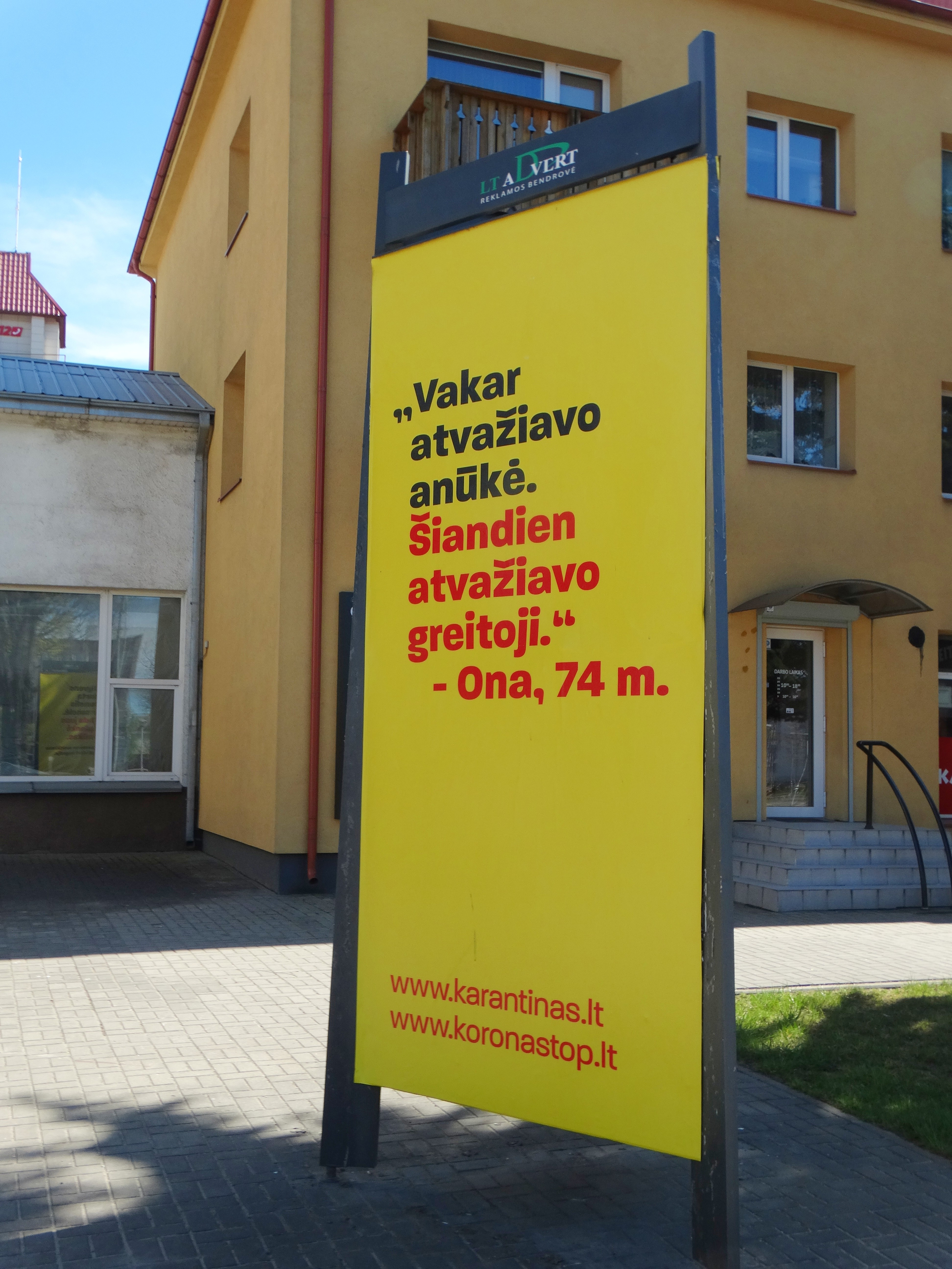 COVID-19 pandemic, social advertising, Tauragė, Lithuania